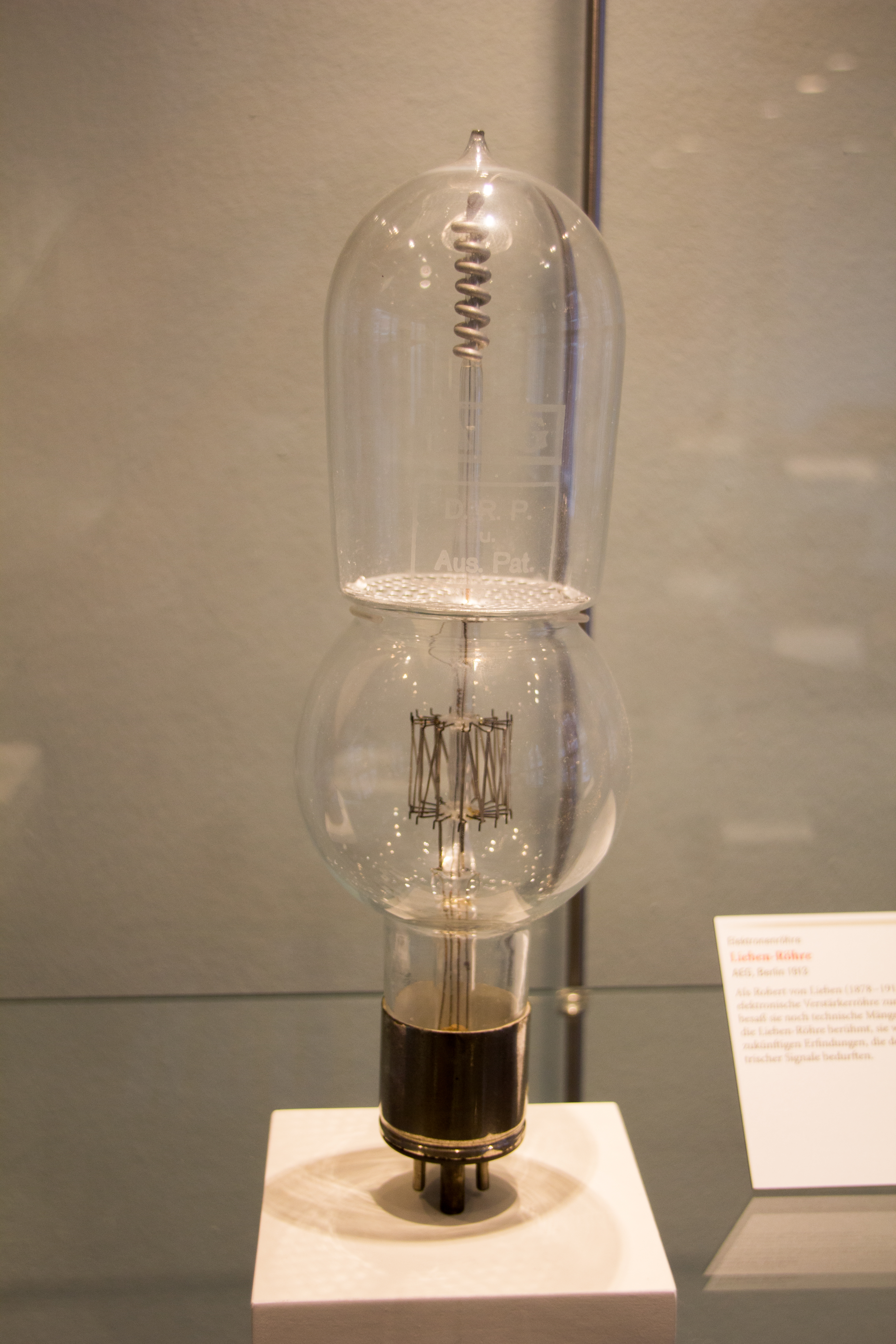 German Museum of Technology, Berlin, Germany. Electron tube - Leiben tube. AEG, Berlin, 1913.